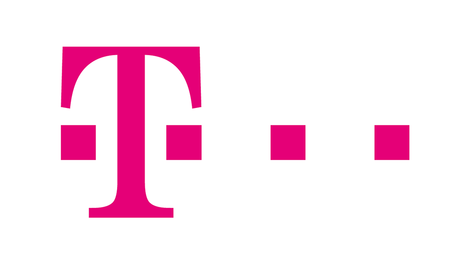 Official logo of Telekom Albania